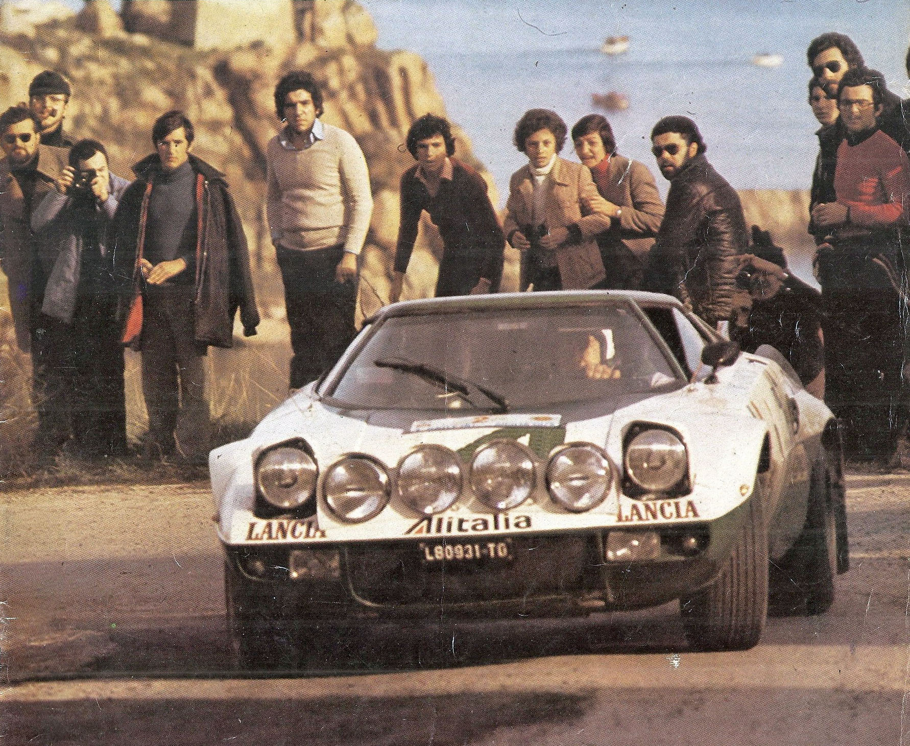 Cefalù (Sicily, Italy), March 28-29, 1975. Italian rally driver Raffaele "Lele" Pinto and his co-driver Arnaldo Bernacchini on a Lancia Stratos HF (Group 4) sponsored Alitalia at Ferla special stage valid for the 1975 Rallye Sicily (Palermo — Cefalù), Italian Rally Championship.